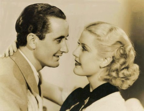 Nino Martini and Anita Louise in Here's to Romance (1935) - publicity still (original image cropped : see source)